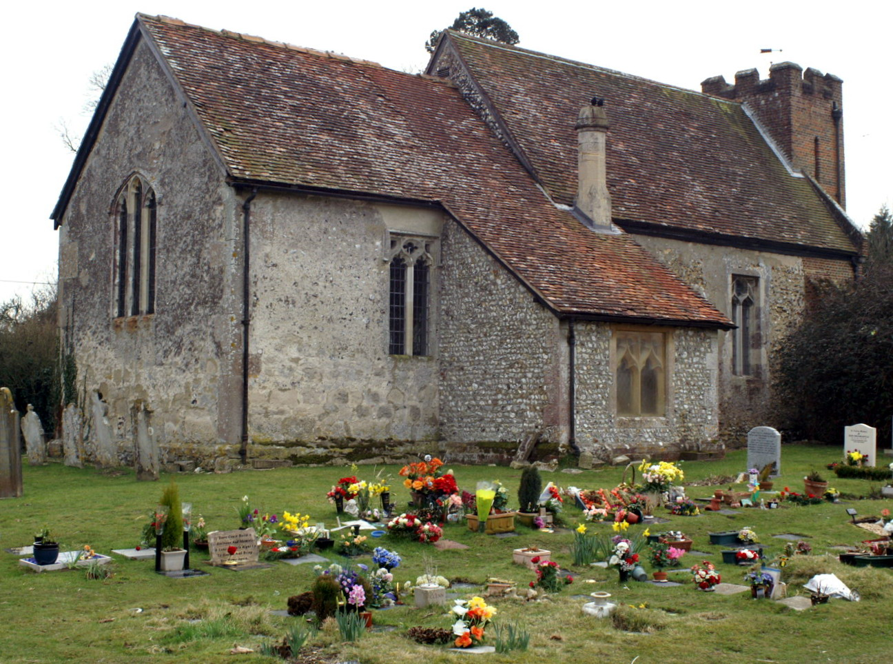 St John the Baptist, North Baddesley, Hampshire